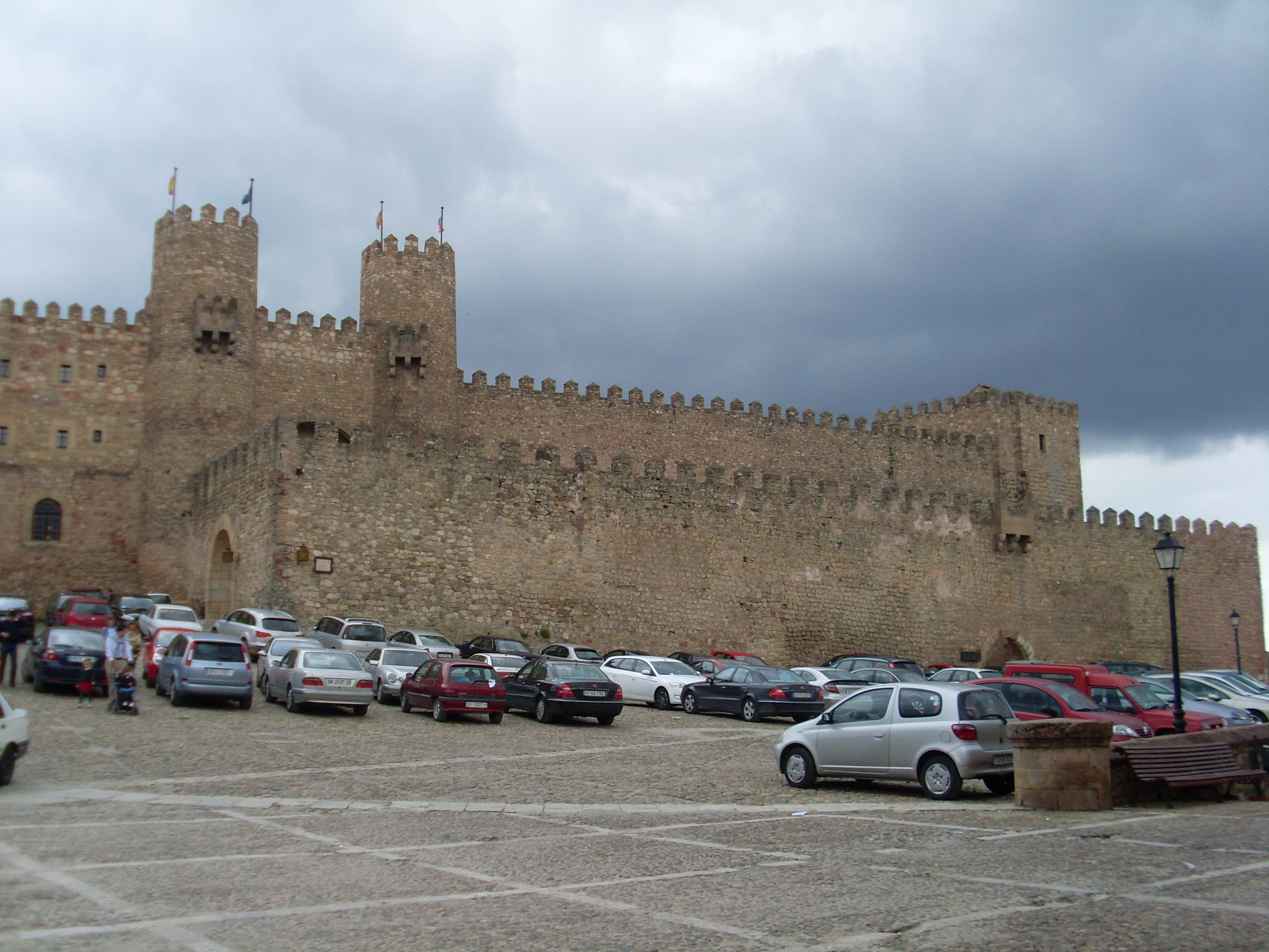 Castle of Siguenza. Sigüenza, Guadalajara -Spain